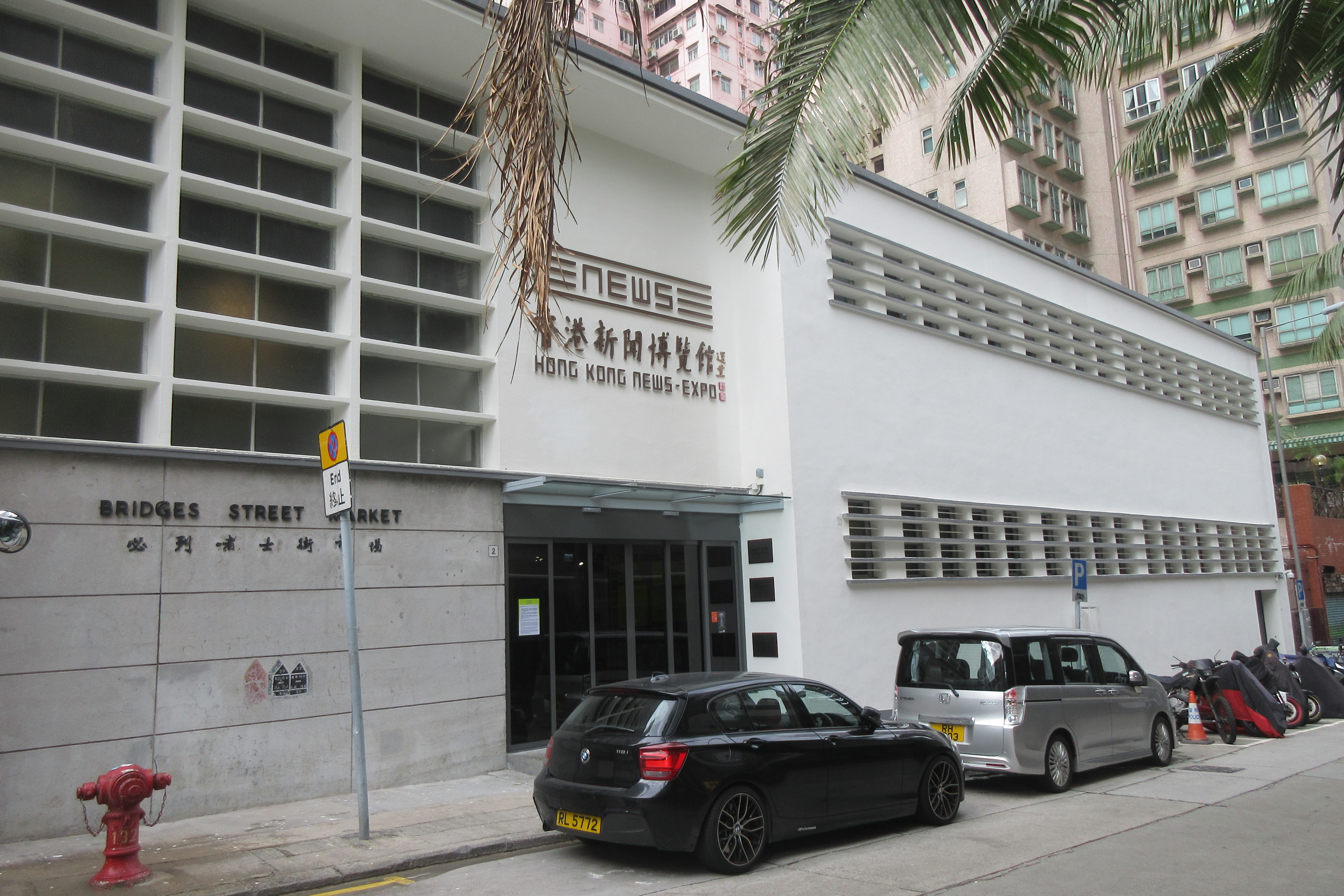 HK Sheung Wan Bridges Street 香港新聞博覽館 Hong Kong News Expo museum in December 2018